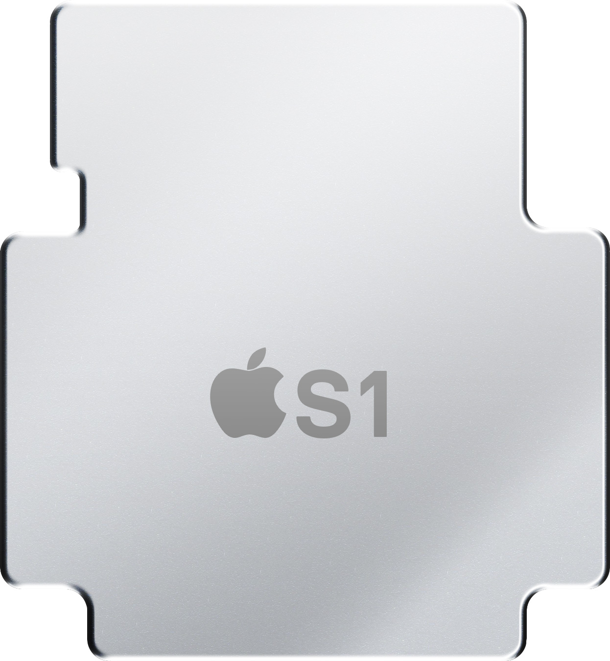 An illustration of Apple's A1 integrated computer for the Apple Watch with its metal heatspreader showing. Inspiration for this picture comes from Apple's promo video for the Apple Watch.